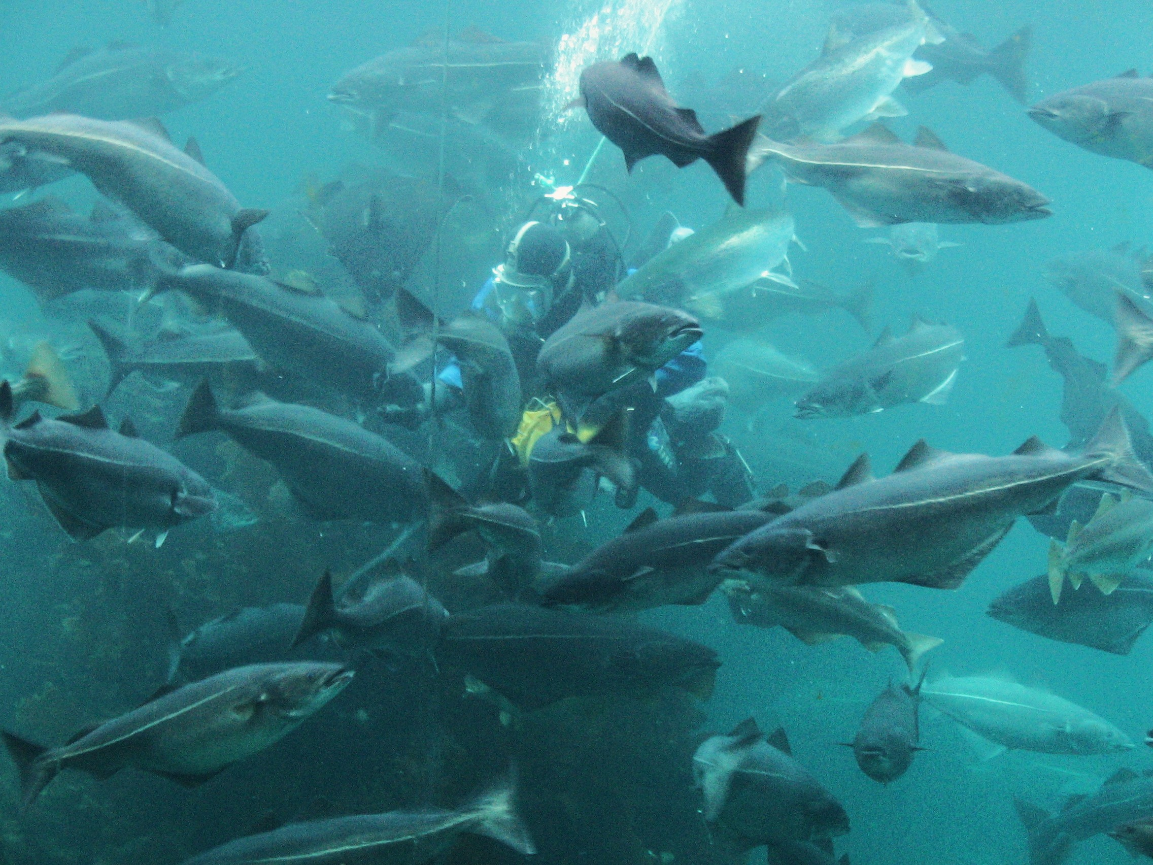 Atlanterhavsparken, Alesund, Norway